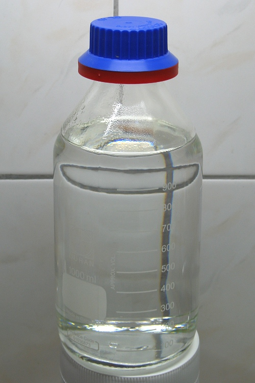 Nitric acid 60% in glass bottle